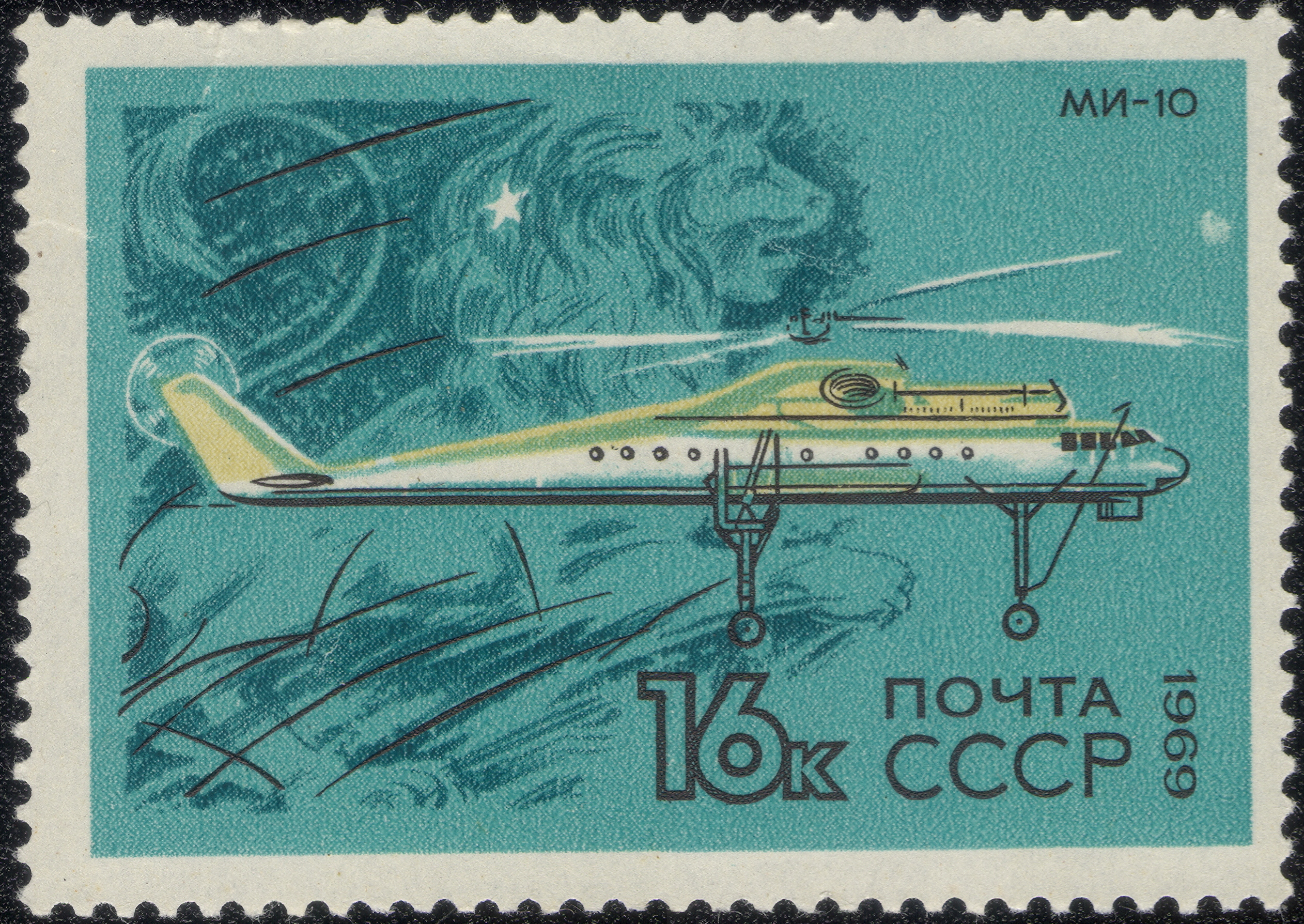 USSR stampː Helicopter Mil Mi-10, 1965. Visualization of Constellation Leo. Seriesː Develoment of Soviet Civil Aviation